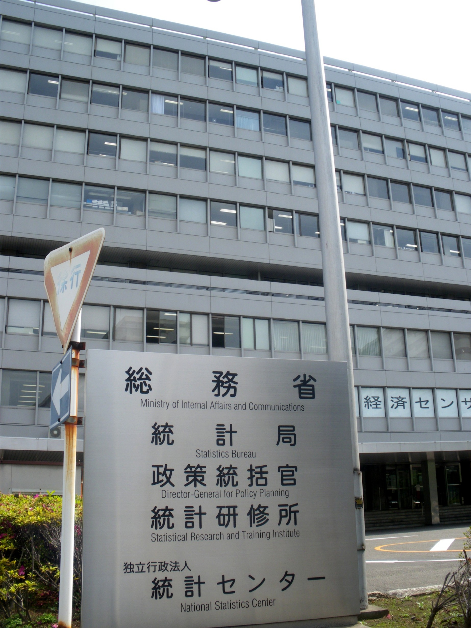 Statistics Bureau of Ministry of Internal Affairs and Communications(Wakamatsucho,Shinjuku-ku,Tokyo)